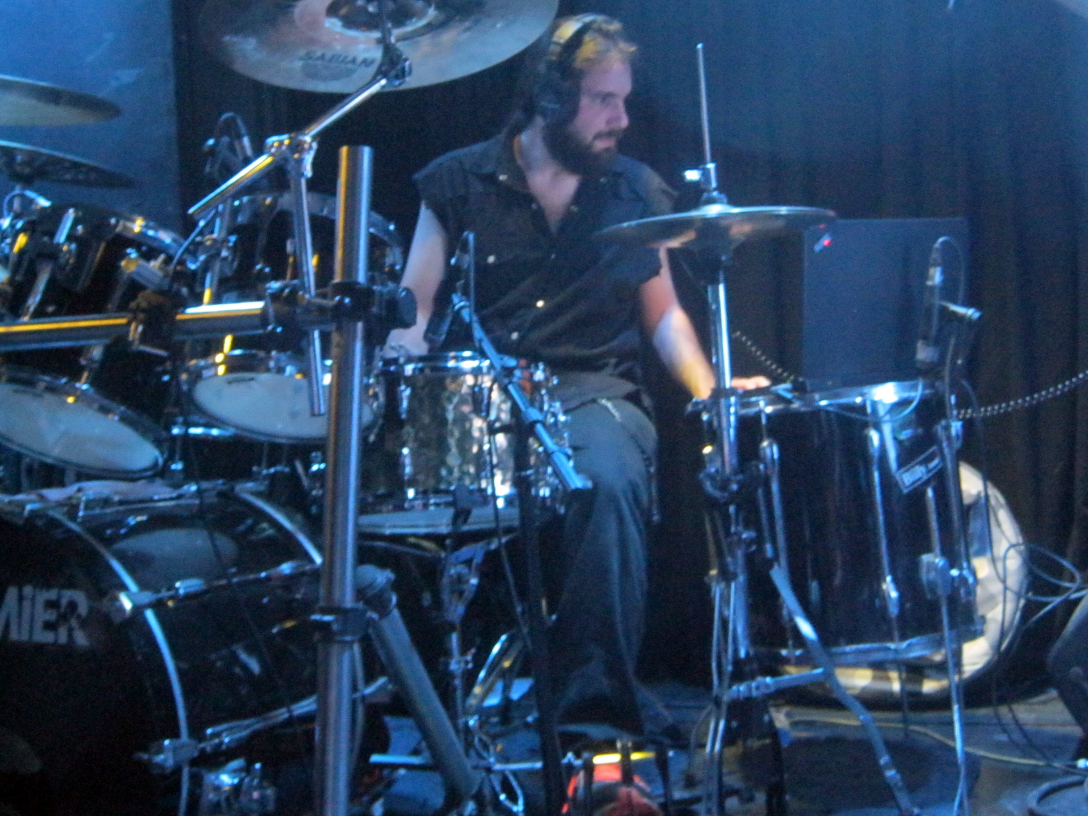 Desert (Israel). Photo taken on 22/10/15